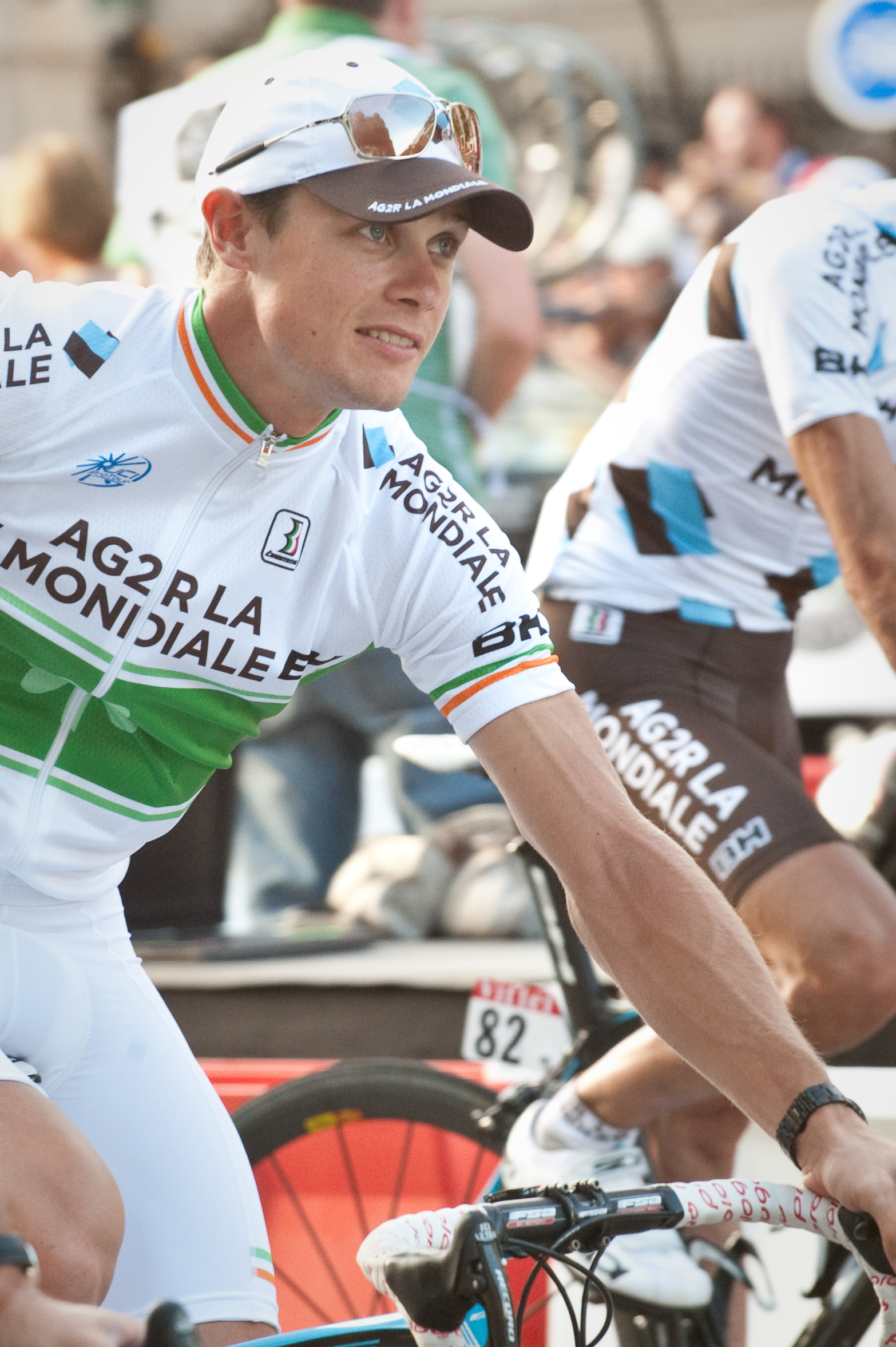 Tour de France 2009 - Parade Lap